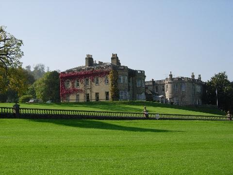 Myself